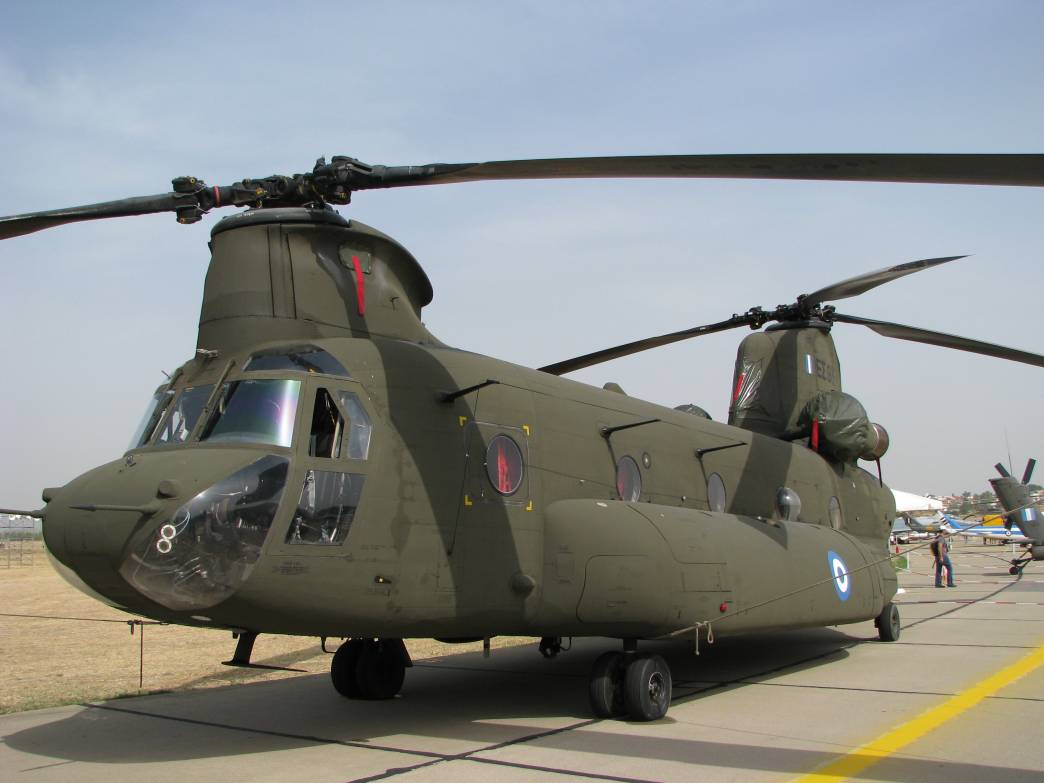 A Hellenic Army CH-47D Chinook displayed at the 2008 HAF air show, in Tanagra airbase, Greece